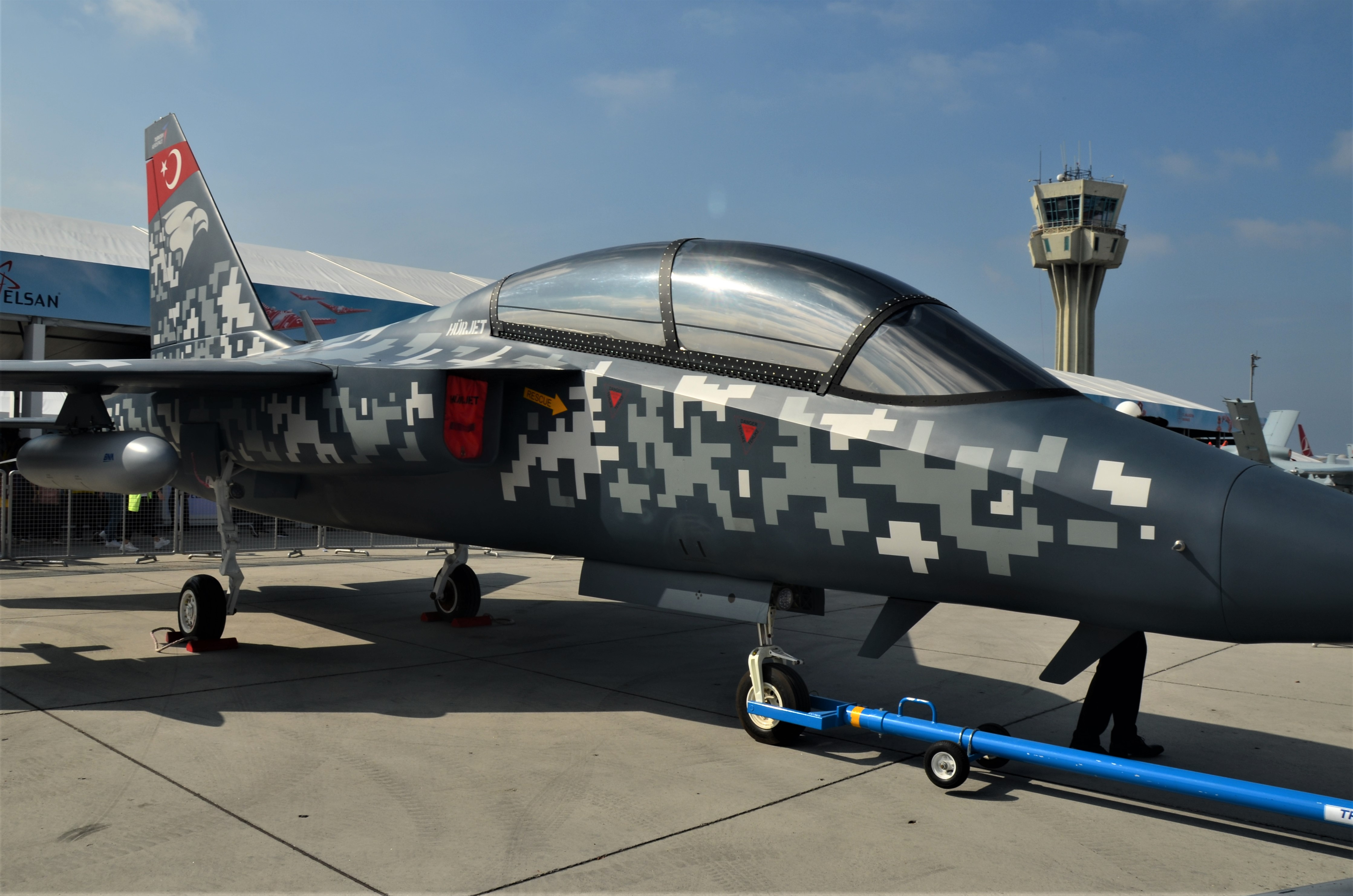 TAI Hürjet at Teknofest 2019